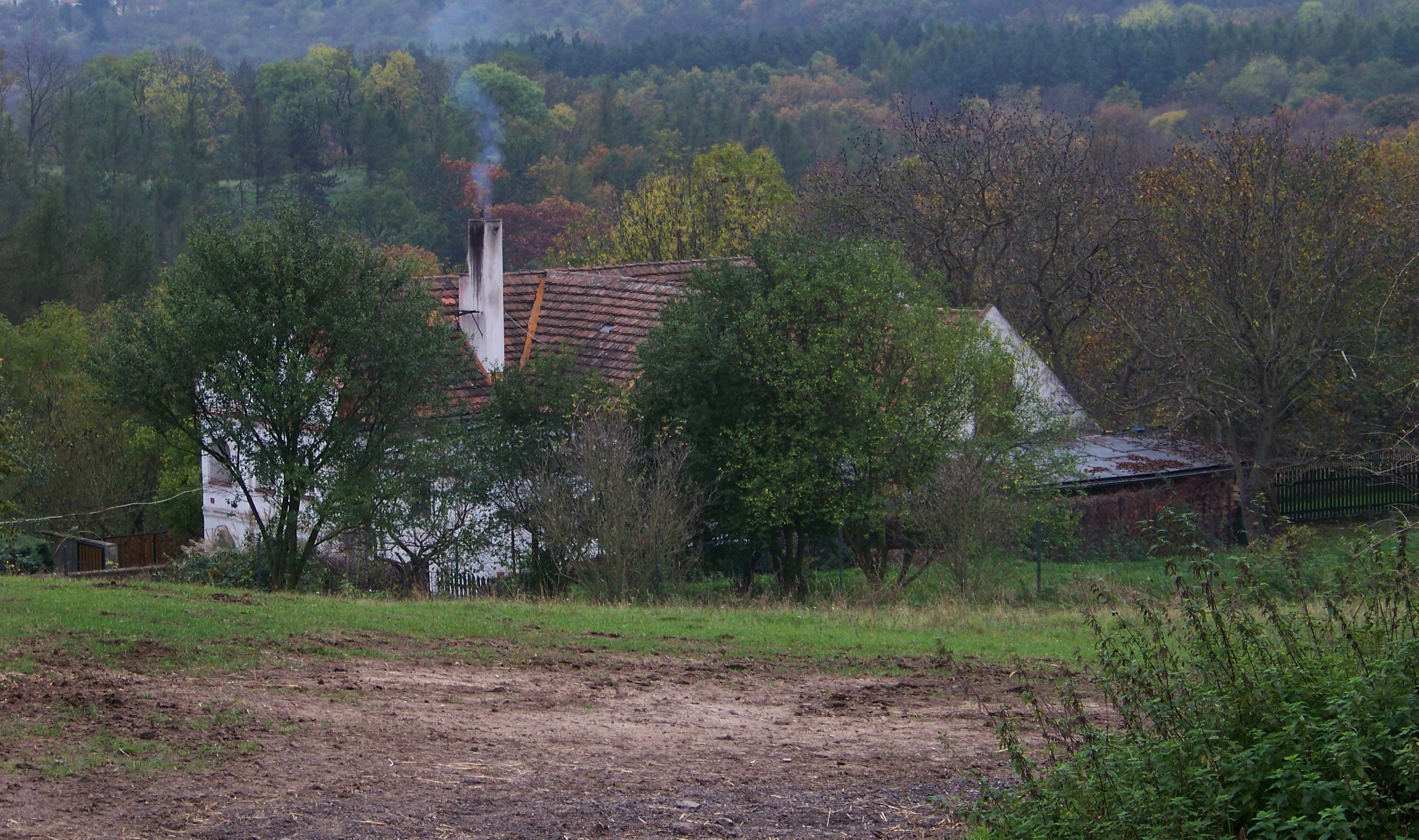 Truhlářka 48, Truhlářka house, Nebušice, Prague, Czech Republic.